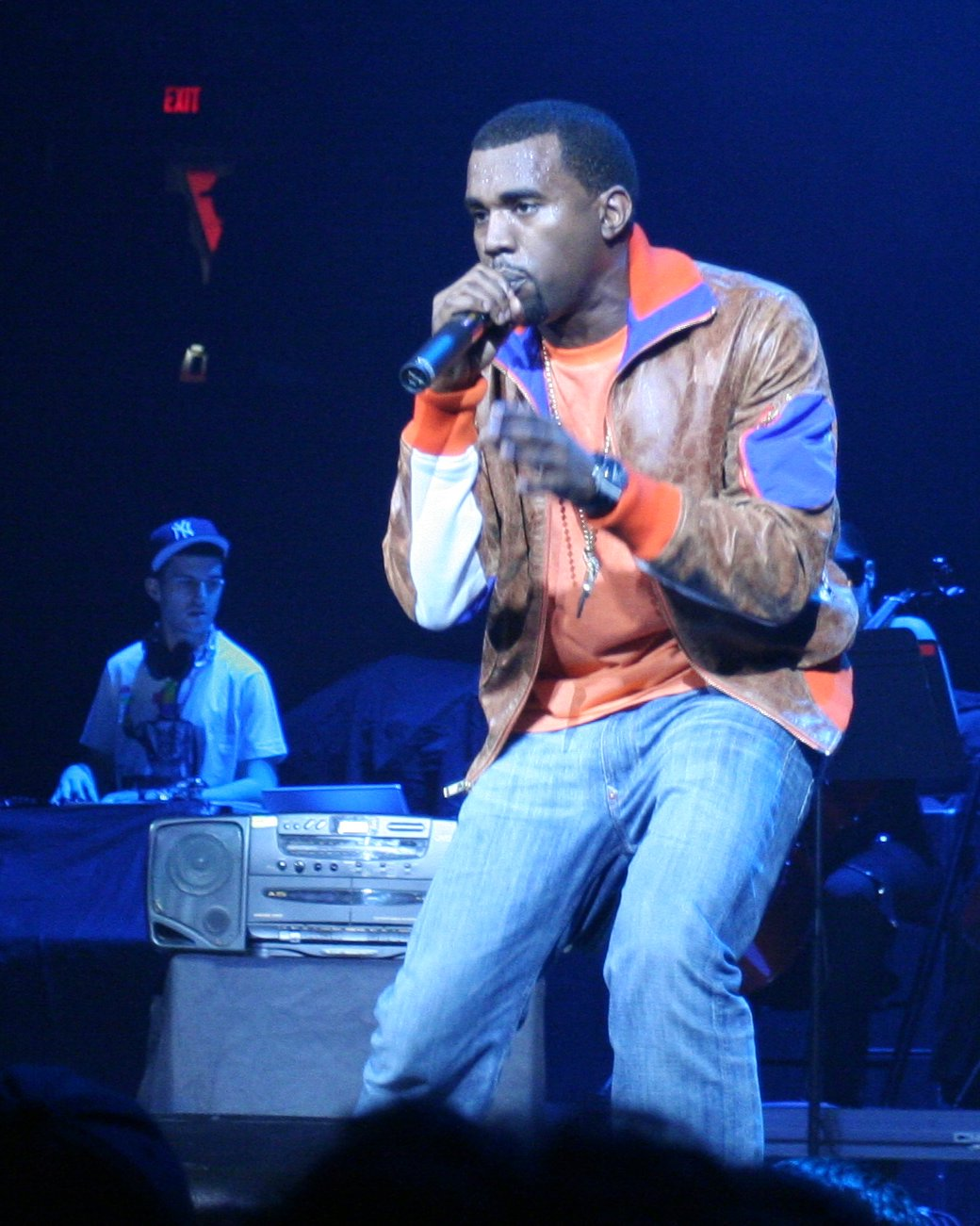 Kanye West performing at a concert on December 19, 2005 in Portland, Oregon, behind him is Canadian DJ A-Trak.